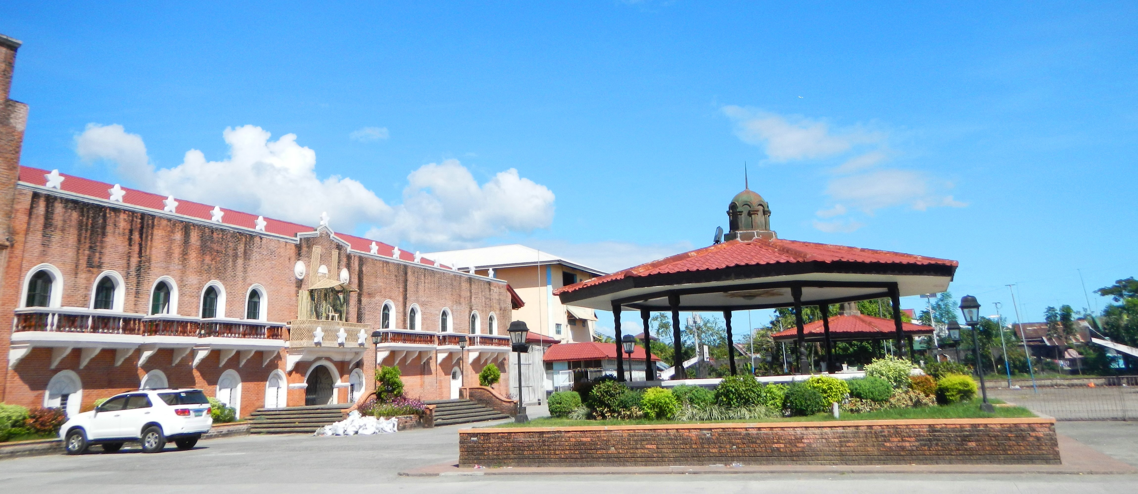 San Agustin Church (Oldest in Pampanga - 1572) The Parish of Saint Augustine celebrated its 440th Founding Anniversary last May 05, 2012 with the launching of the 1st Sampaguita Festival; participated by the six parishes of Lubao. And the reception of the relics of St. Augustine & St. Monica. Lubao, Pampanga[1]